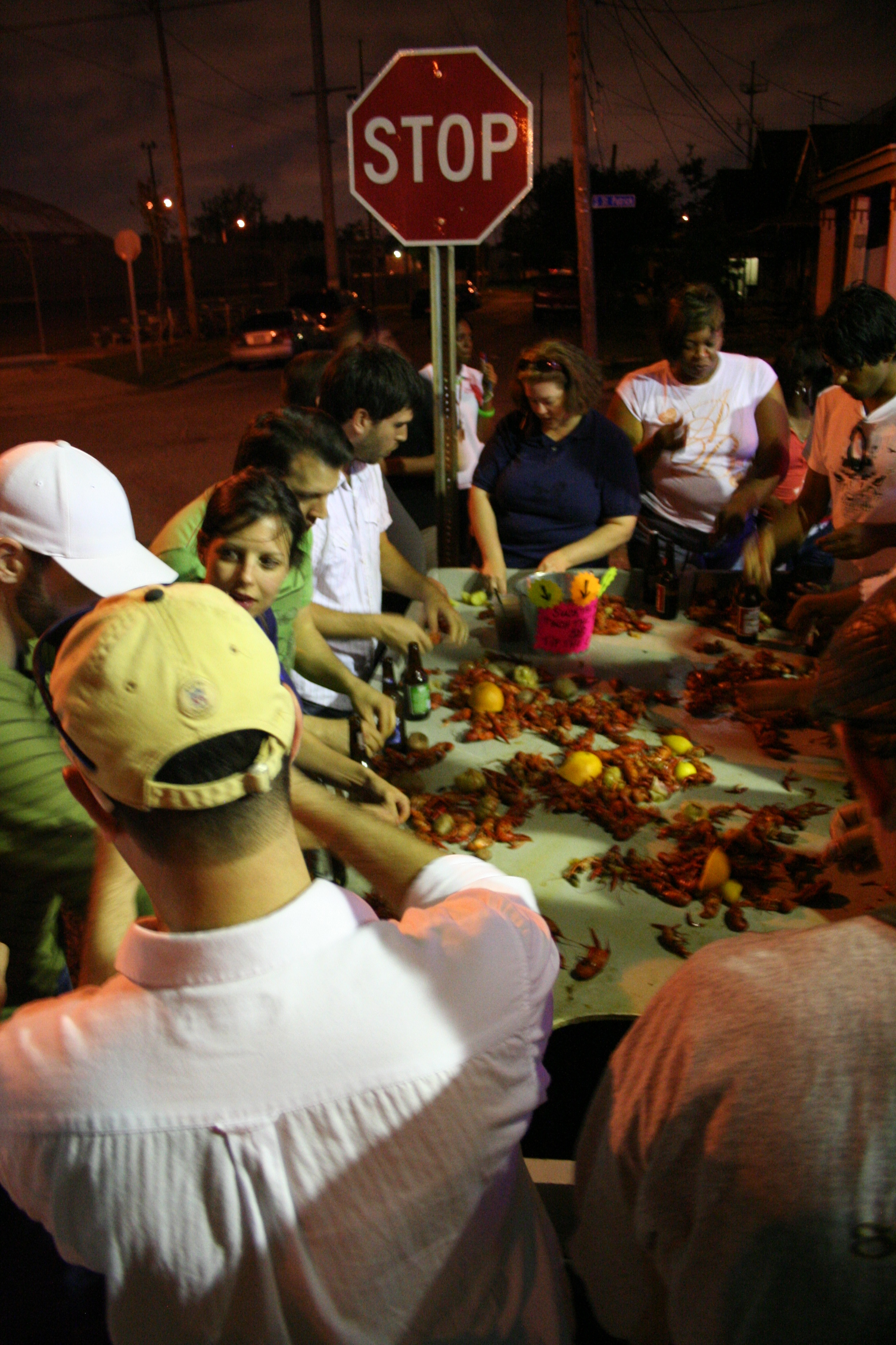 Crawfish party outside the Mid City Yacht Club 440 S St Patrick St. New Orleans, LA 70119